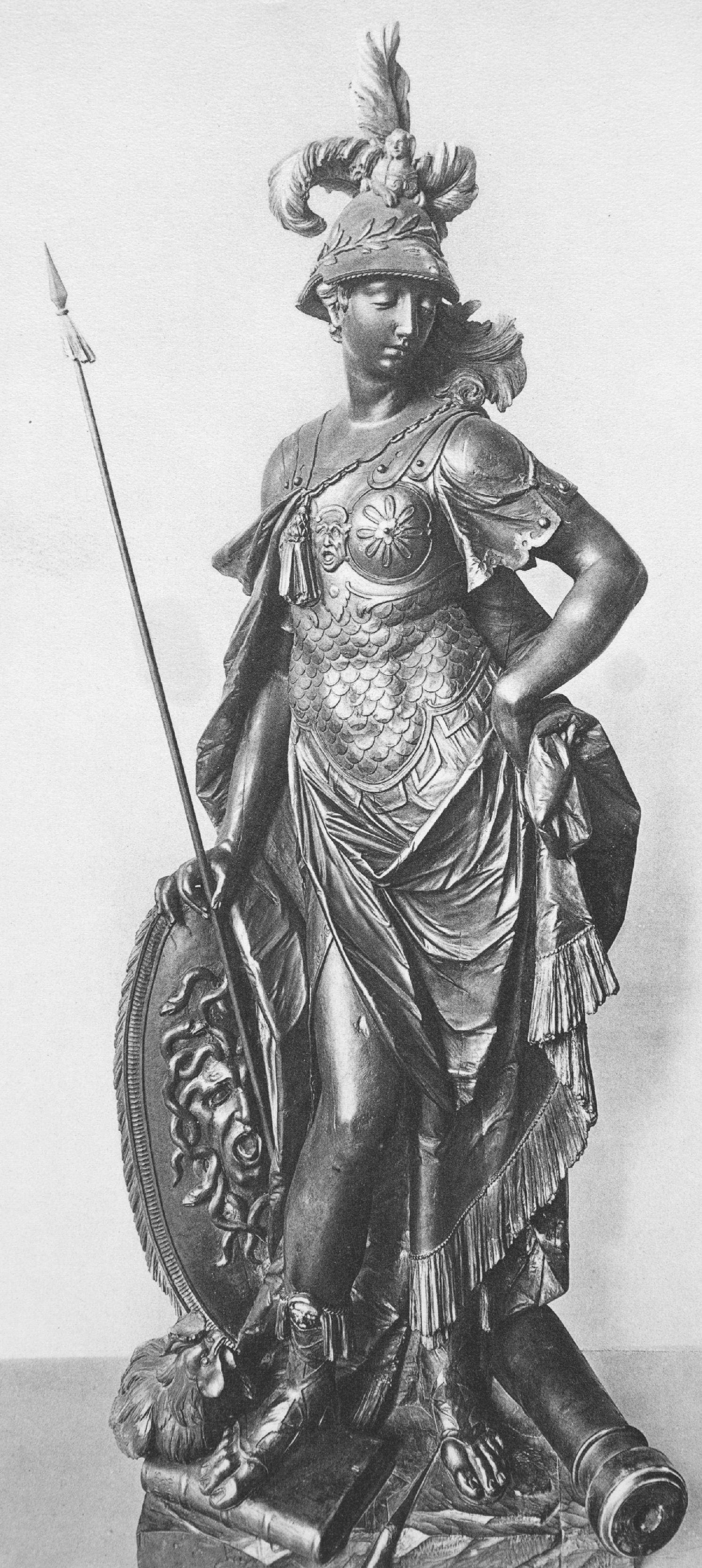 A statue of the Roman war goddess Bellona by the German Rococo sculptor Johann Baptist Straub, 1770